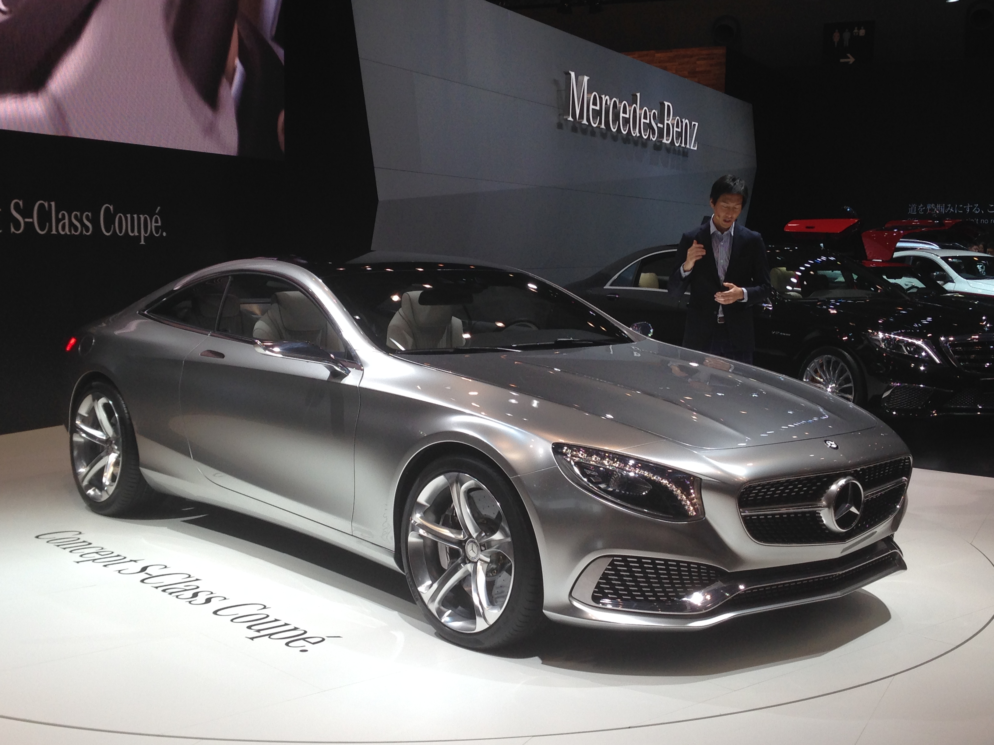 Mercedes-Benz Concept S-Class Coupé photographed at the Tokyo Motor Show 2013.